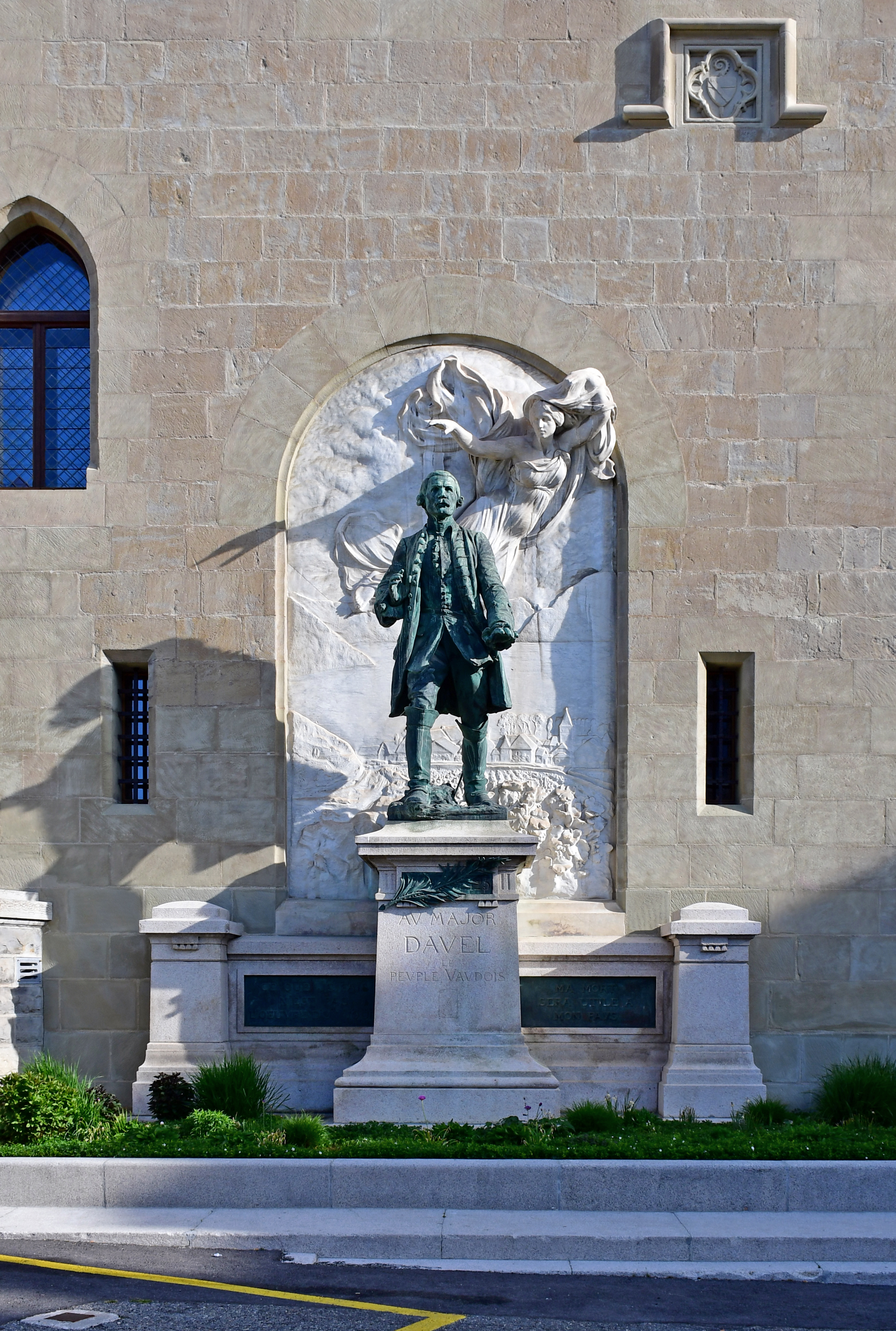 Monument to Abraham Davel (1898), in front of Saint-Maire Castel (Lausanne, Switzerland).